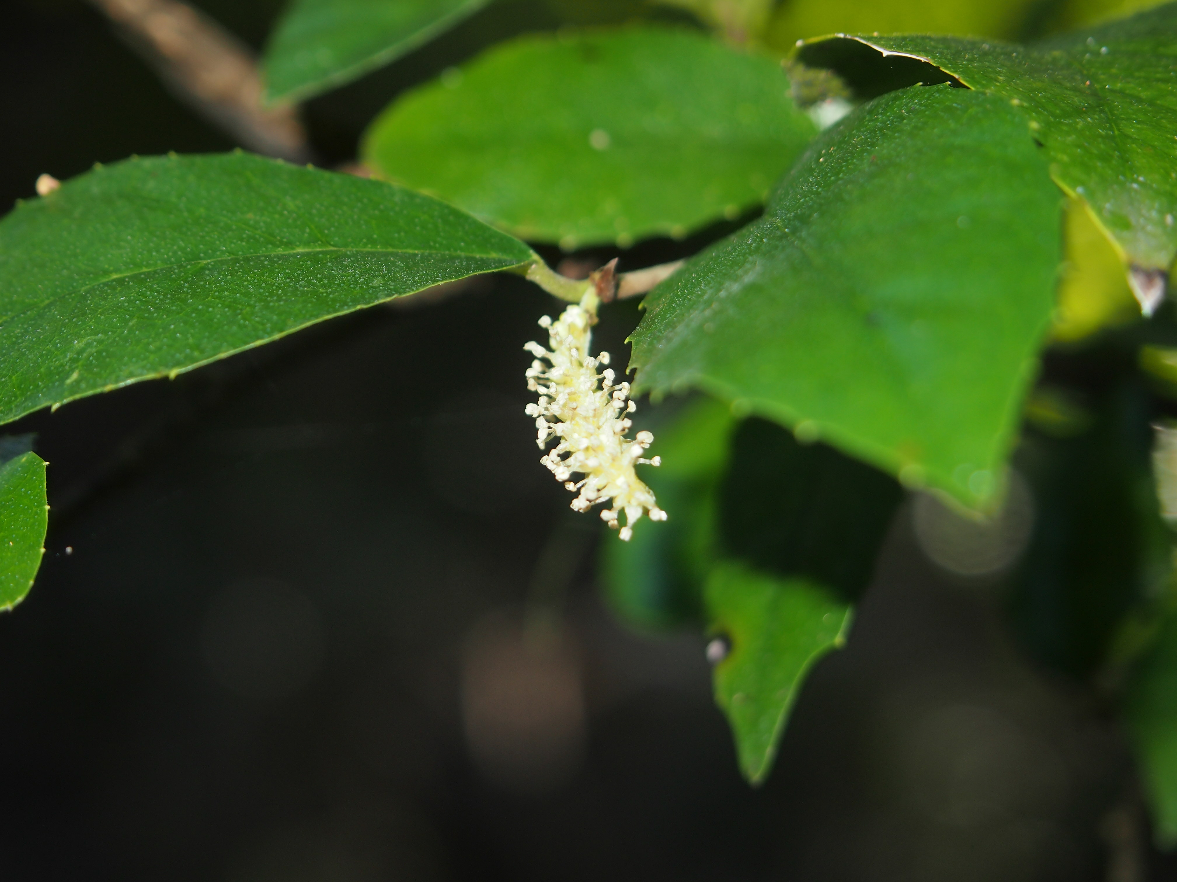 Streblus brunonianus flower spike